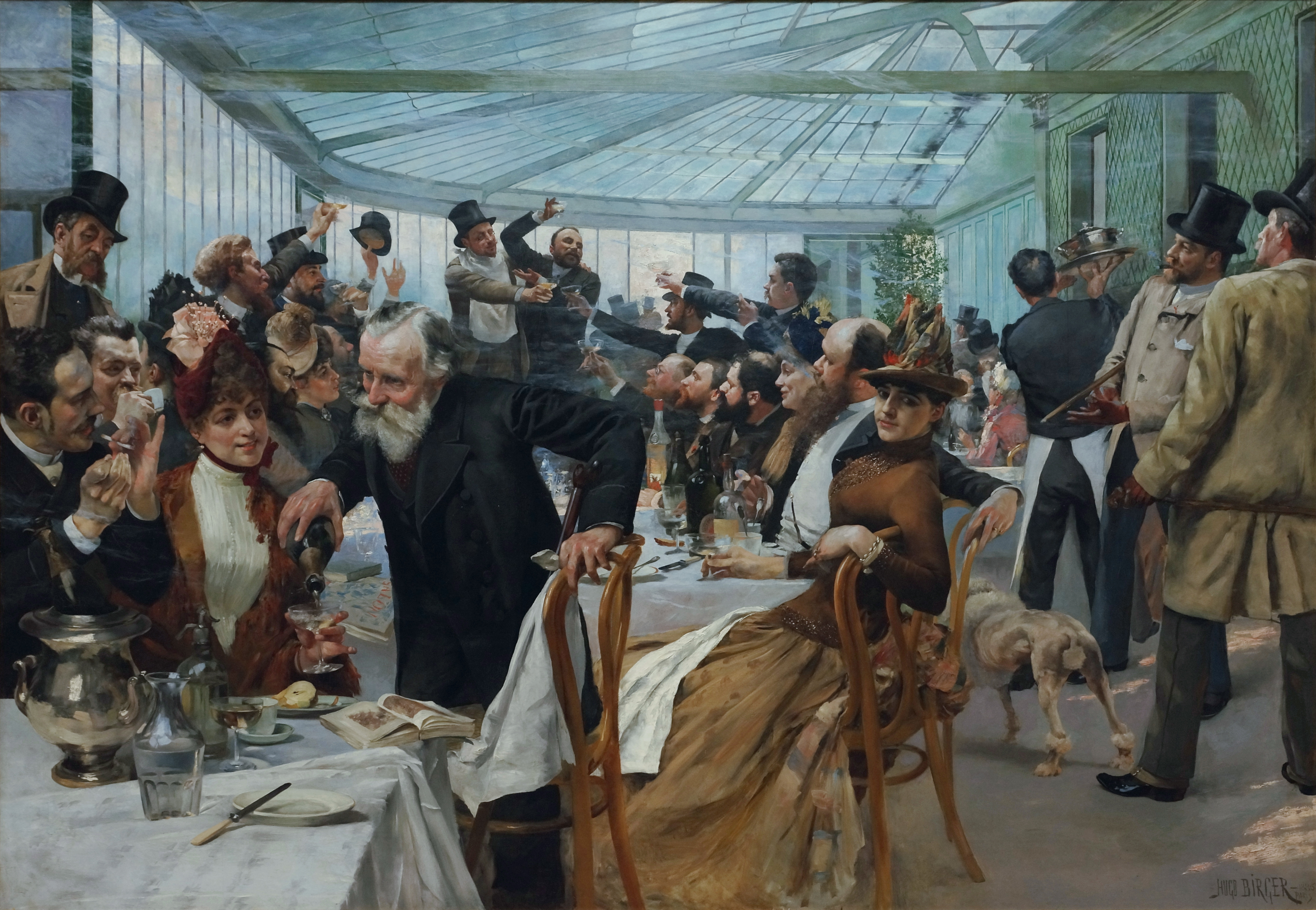 This is a photo of an artwork at the Gothenburg Museum of Art in Sweden with the identifier: GKM 0204